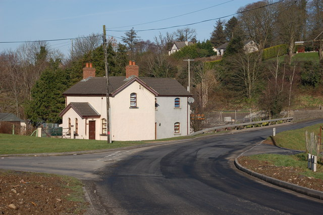 Old railway station Lenaderg. See also 341237. This is the old station at Lenaderg, modernised and extended. There was a level crossing here, between the photographer and the station. Banbridge is to the right and Scarva to the left. The area was lightly populated when the line closed in 1955. Lenaderg and Banbridge are, more or less, one and the same now. Continue to 341276.